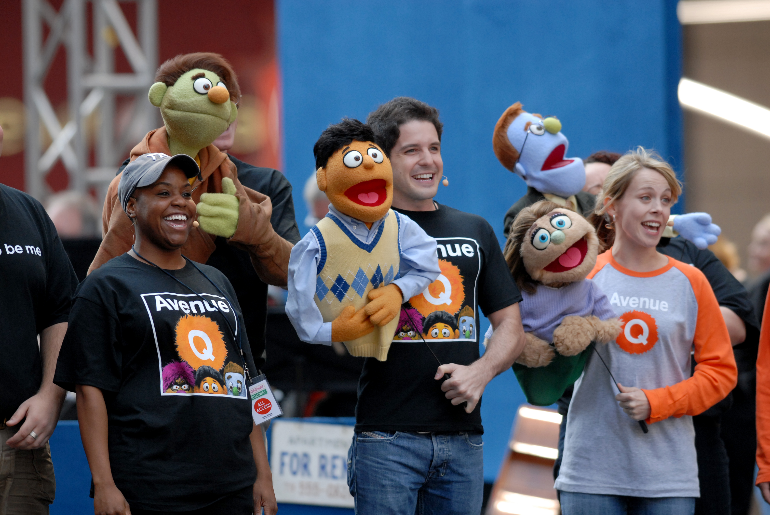 The cast of Avenue Q performs "It Sucks to Be Me" at Broadway on Broadway, September 10th 2006.